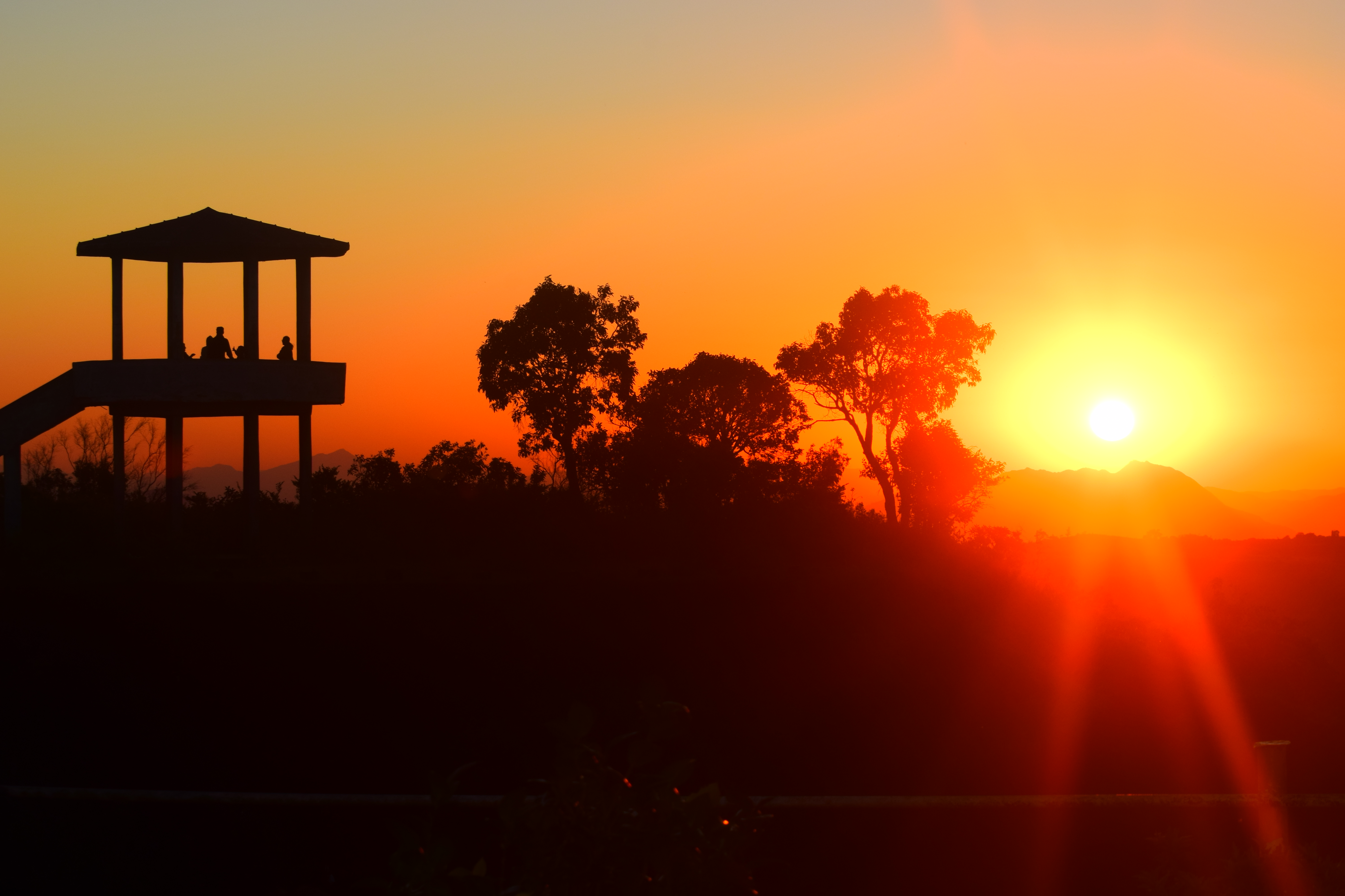 Picture shot during sunset @ Kemmangundi which depicts amazing beauty of nature